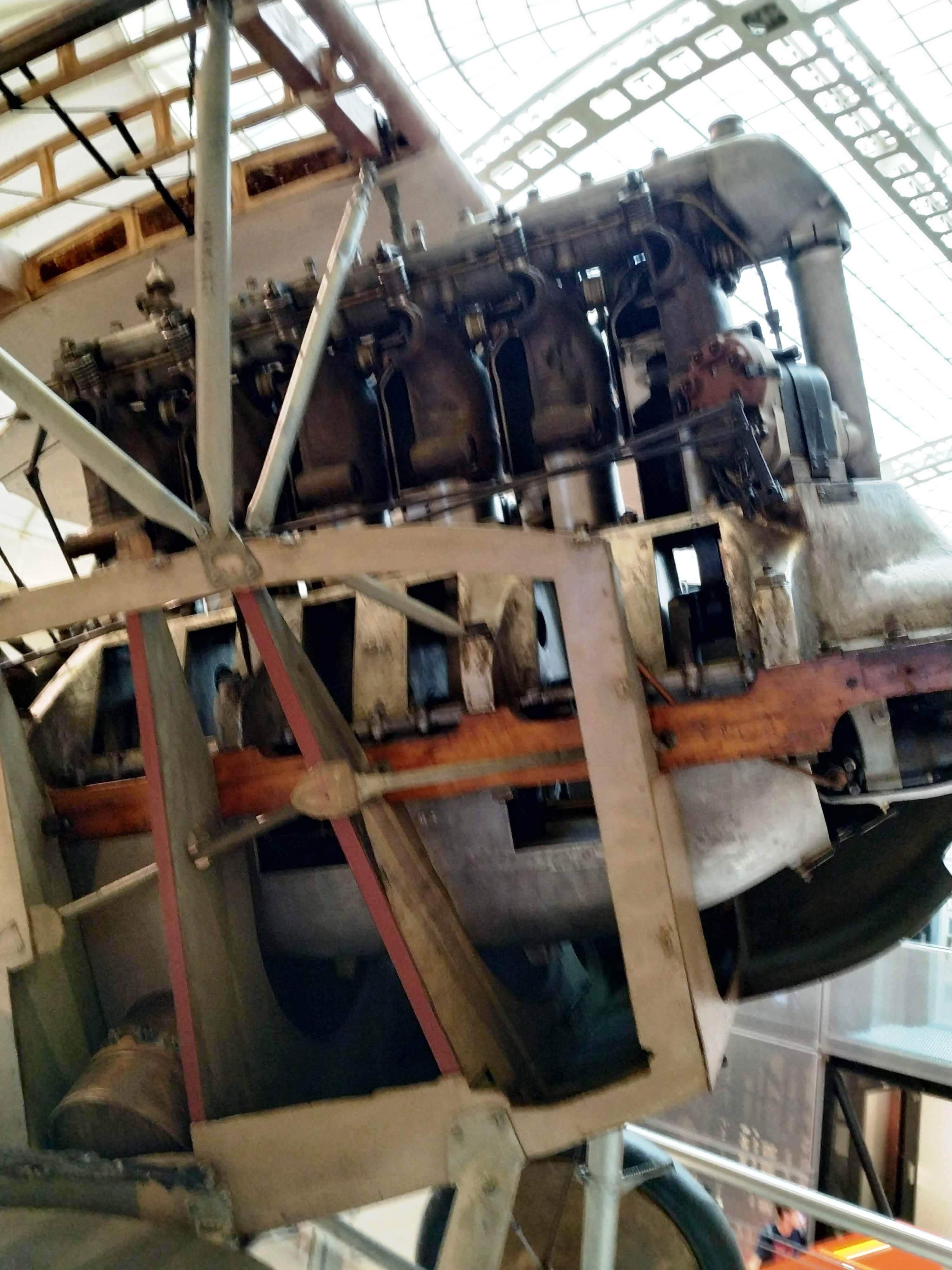 Engine Mount Aviatik Berg D 1, AD 6 Austro Daimler.